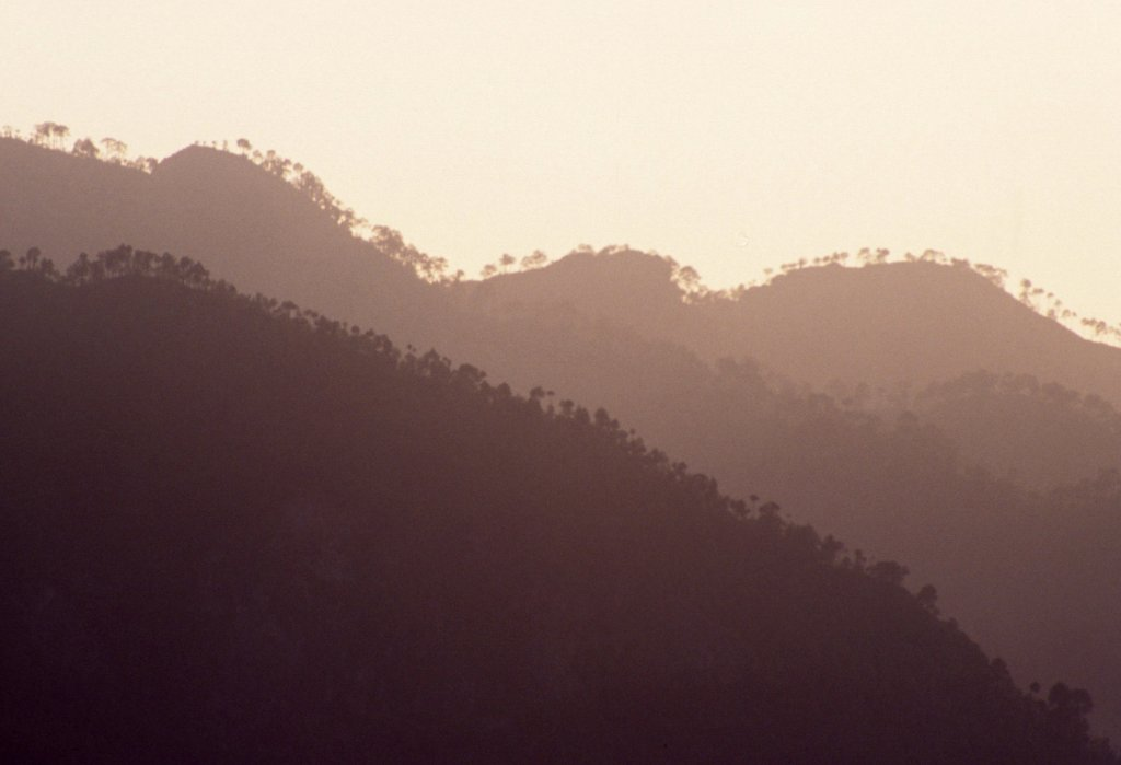 Himalaya foothills near Solan, Himachal Pradesh India. Taken from the english wikipedia. Original text: This picture was taken by Jonathan Claybaugh outside of Solan looking NW in July of 2000